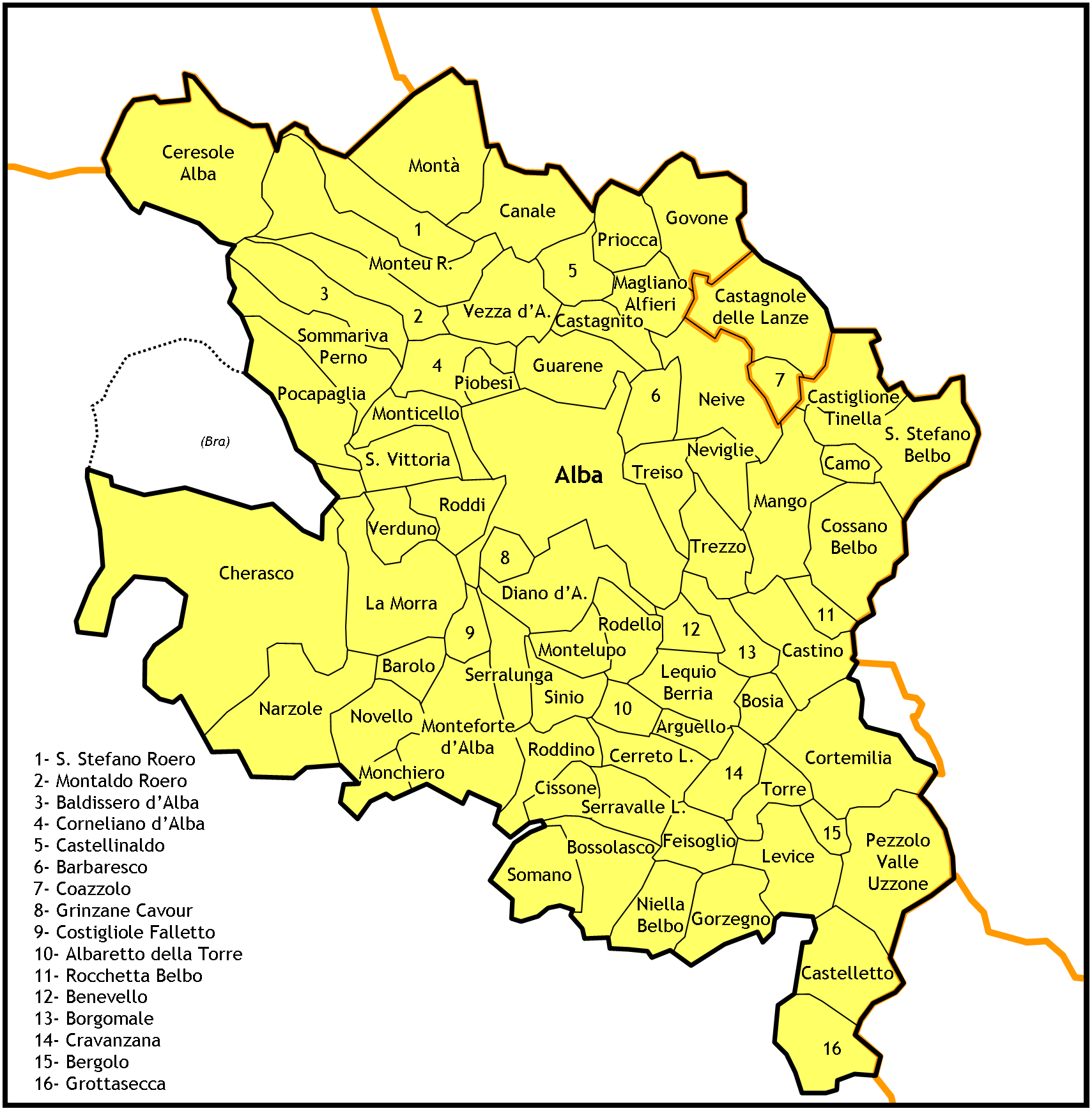 Map of Alba's Diocese